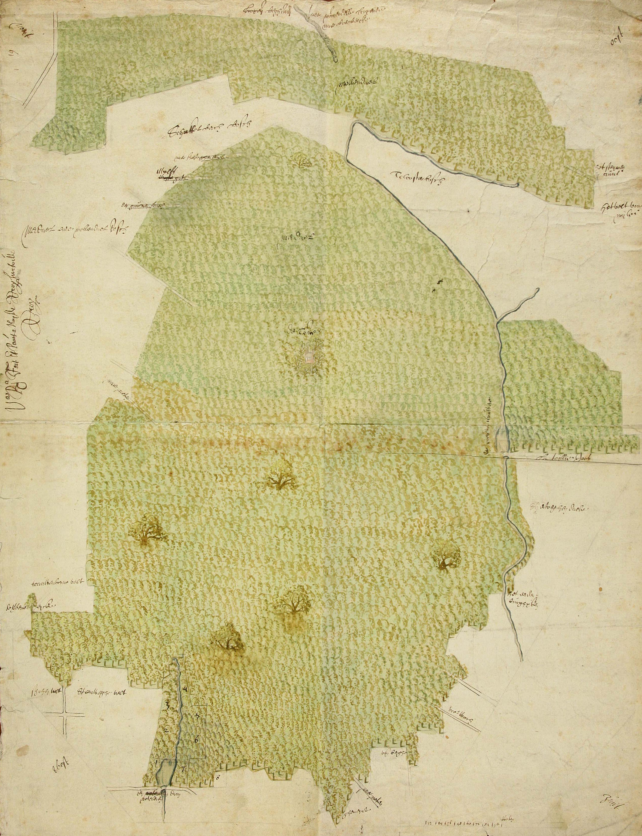 The Meerdaal Wood around 1598.